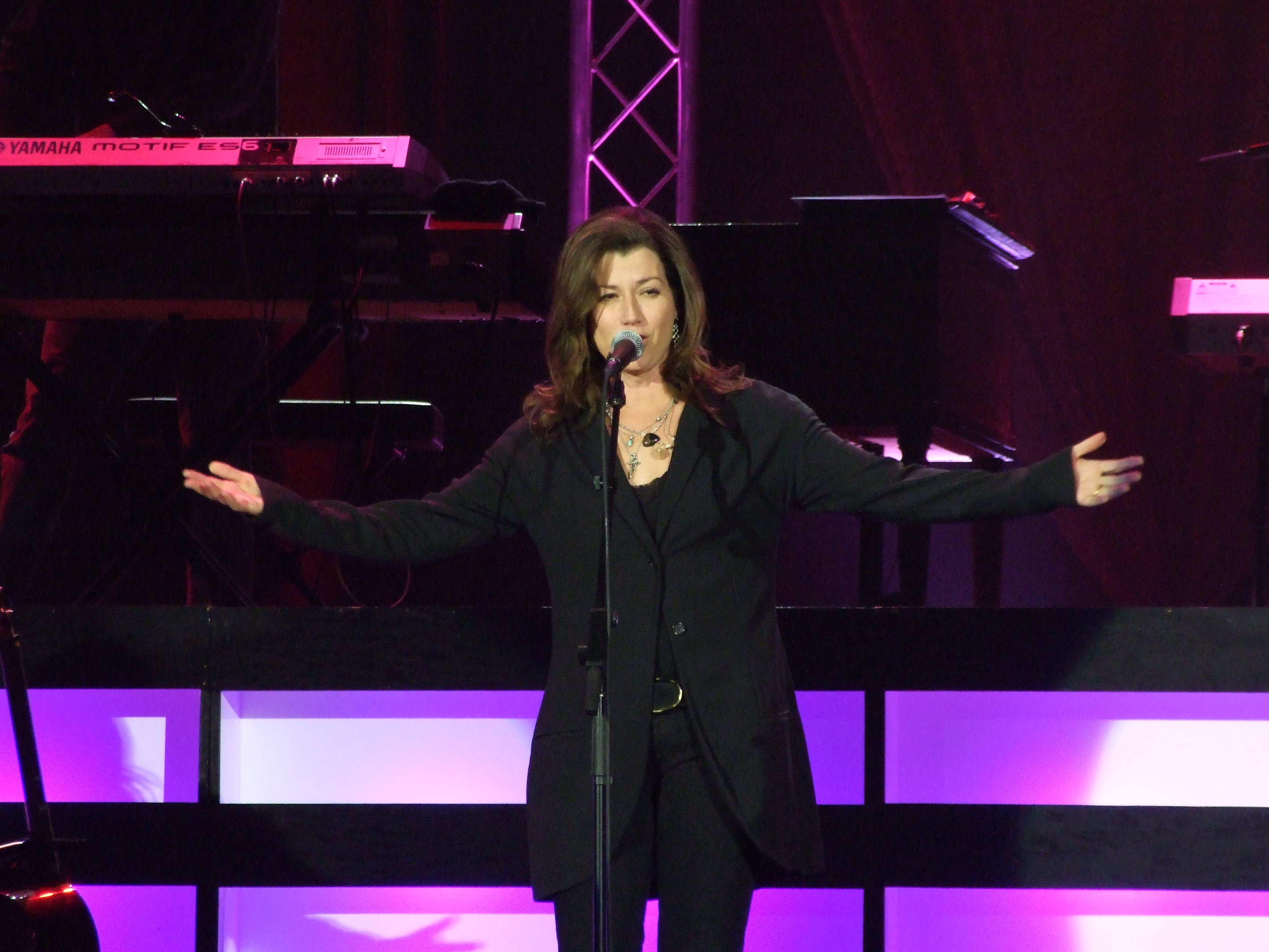 At the Peppermill Concert Hall.